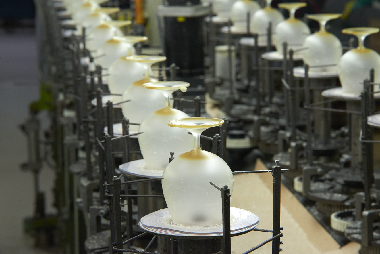 glass decoration technique pantograph etching